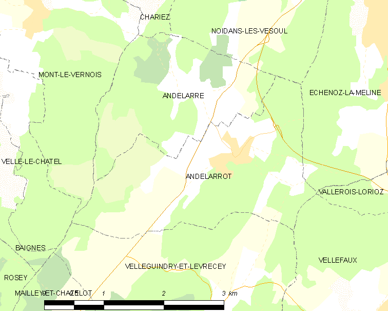 Map of French municipality